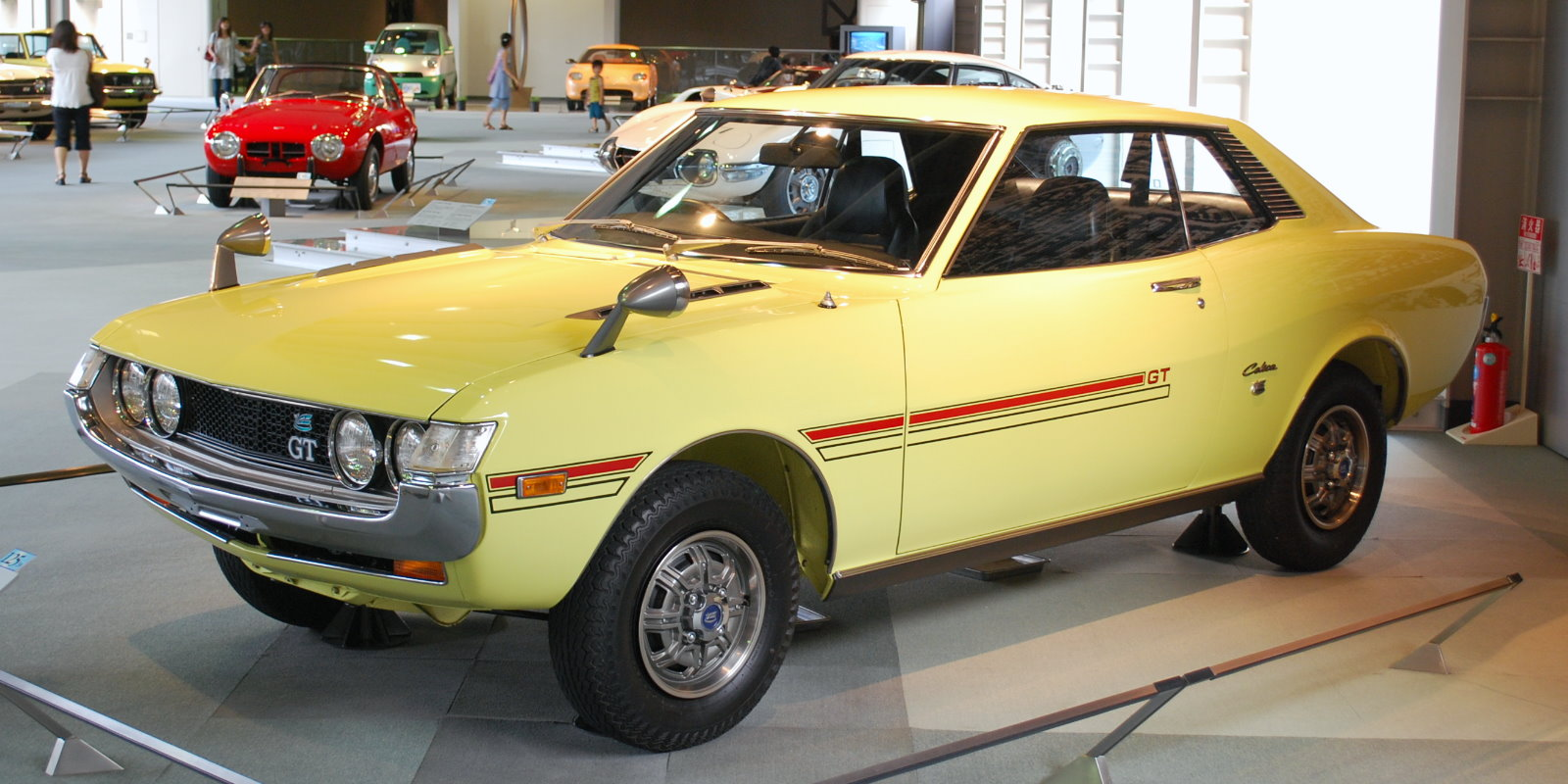 1st generation Toyota_Celica Model TA22